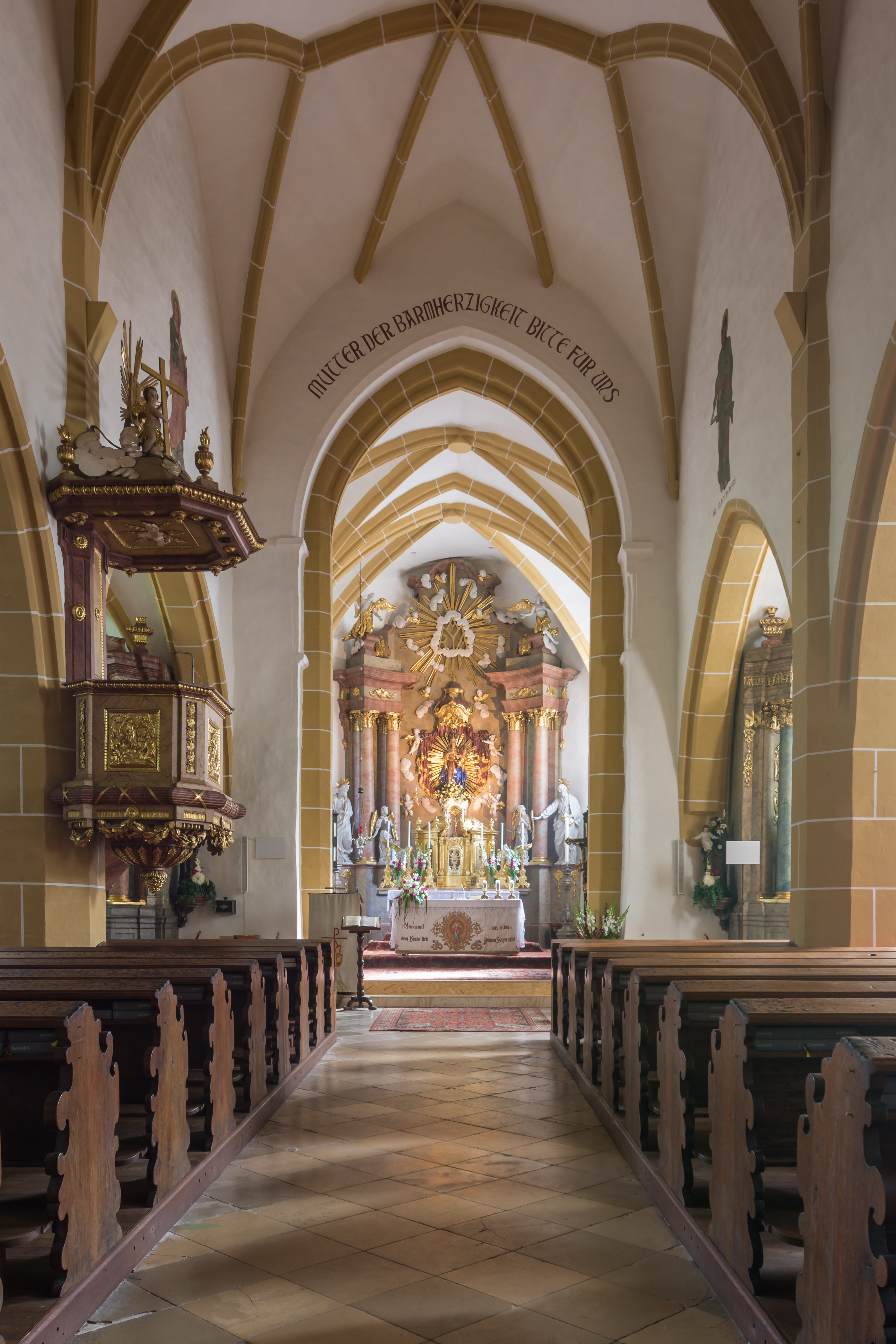 Interior of the parish church in Maria Anzbach, Lower Austria